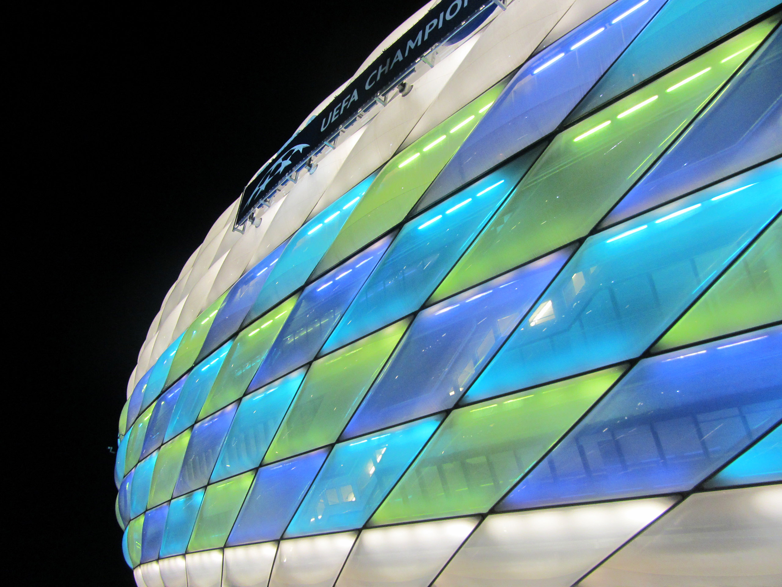 Bayern München - Chelsea FC 19.05.2012 Champions League Finale 2012 / "Finale Dahoam" Die Arena in der UEFA-Spezialbeleuchtung Champions League Final 2012 The Arena in UEFA colors